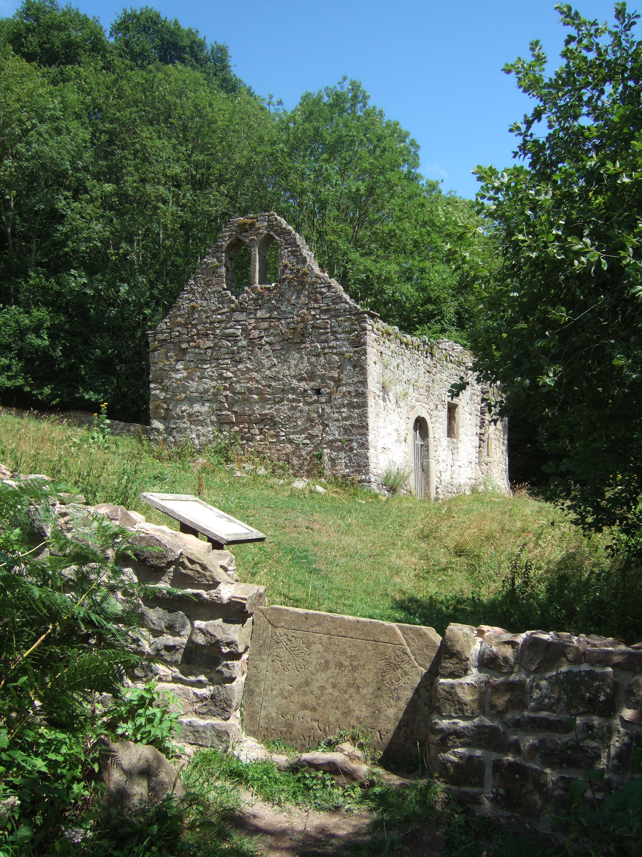 St James' church, Lancaut, Wye valley